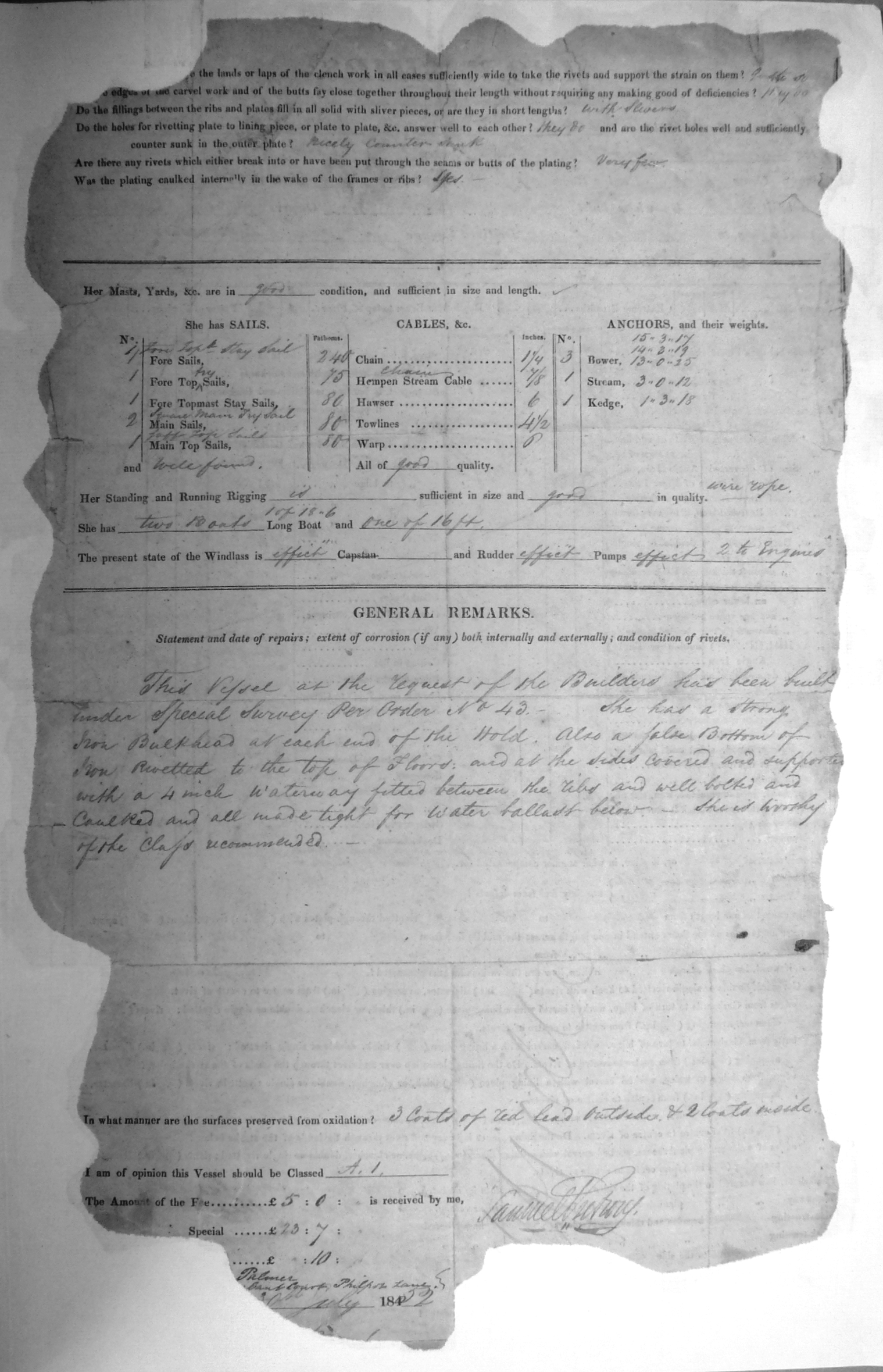 Image of the Lloyd's survey certificate for the steam collier SS John Bowes, signed and dated July 1852 by Samuel Pretious, resident surveyor, Newcastle-upon-Tyne (back).